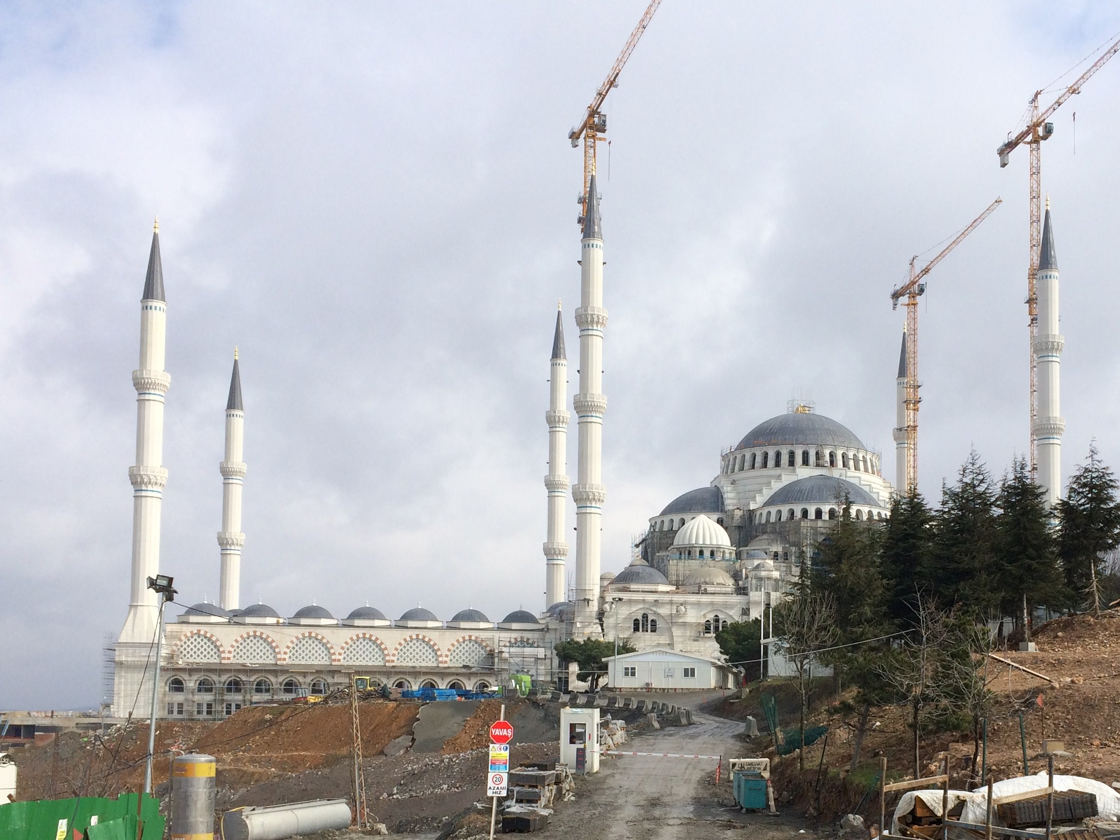 Çamlıca Mosque, construction Feb 2017